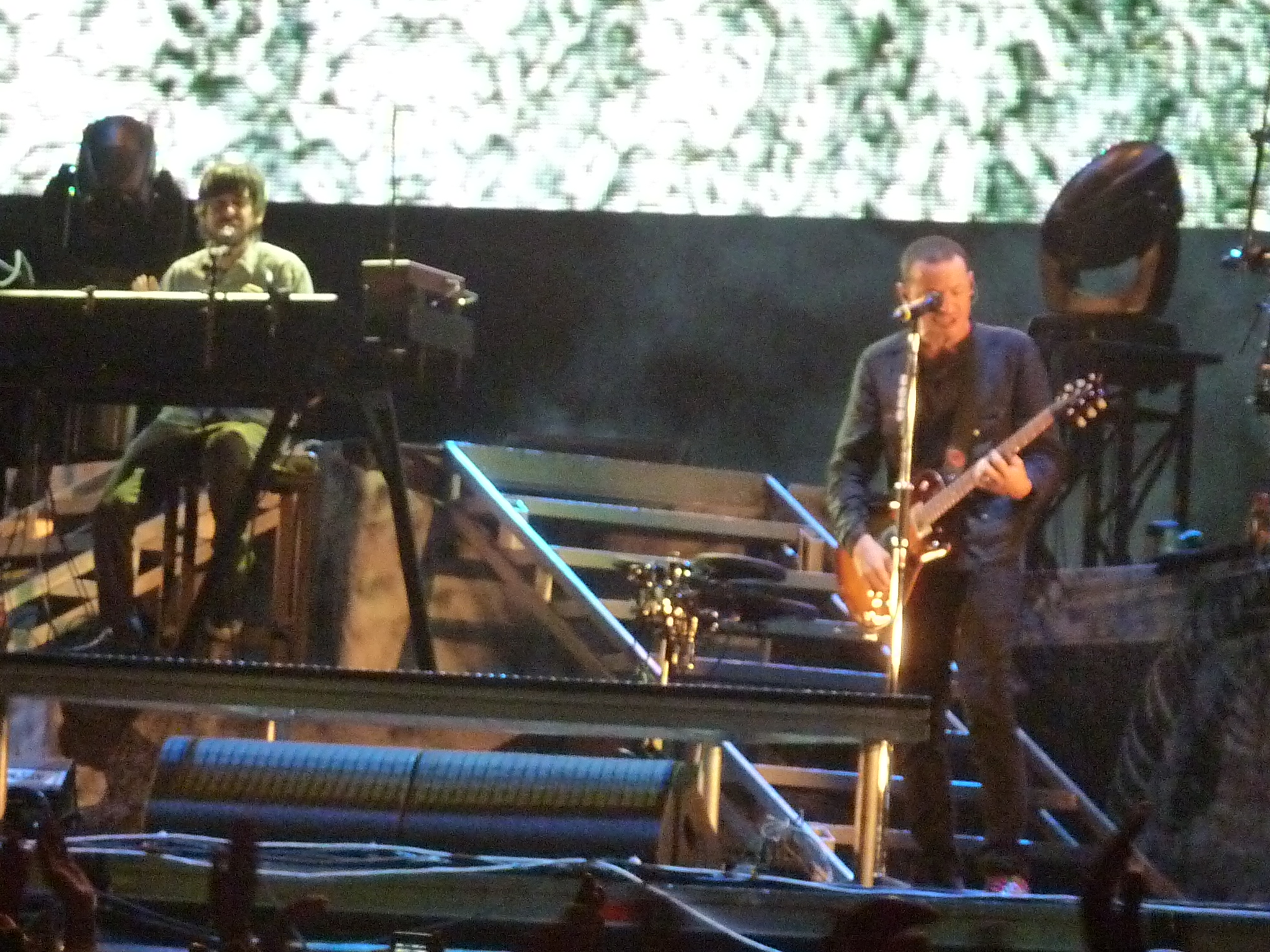 Linkin Park performing at the Maquinaria Festival 2010.